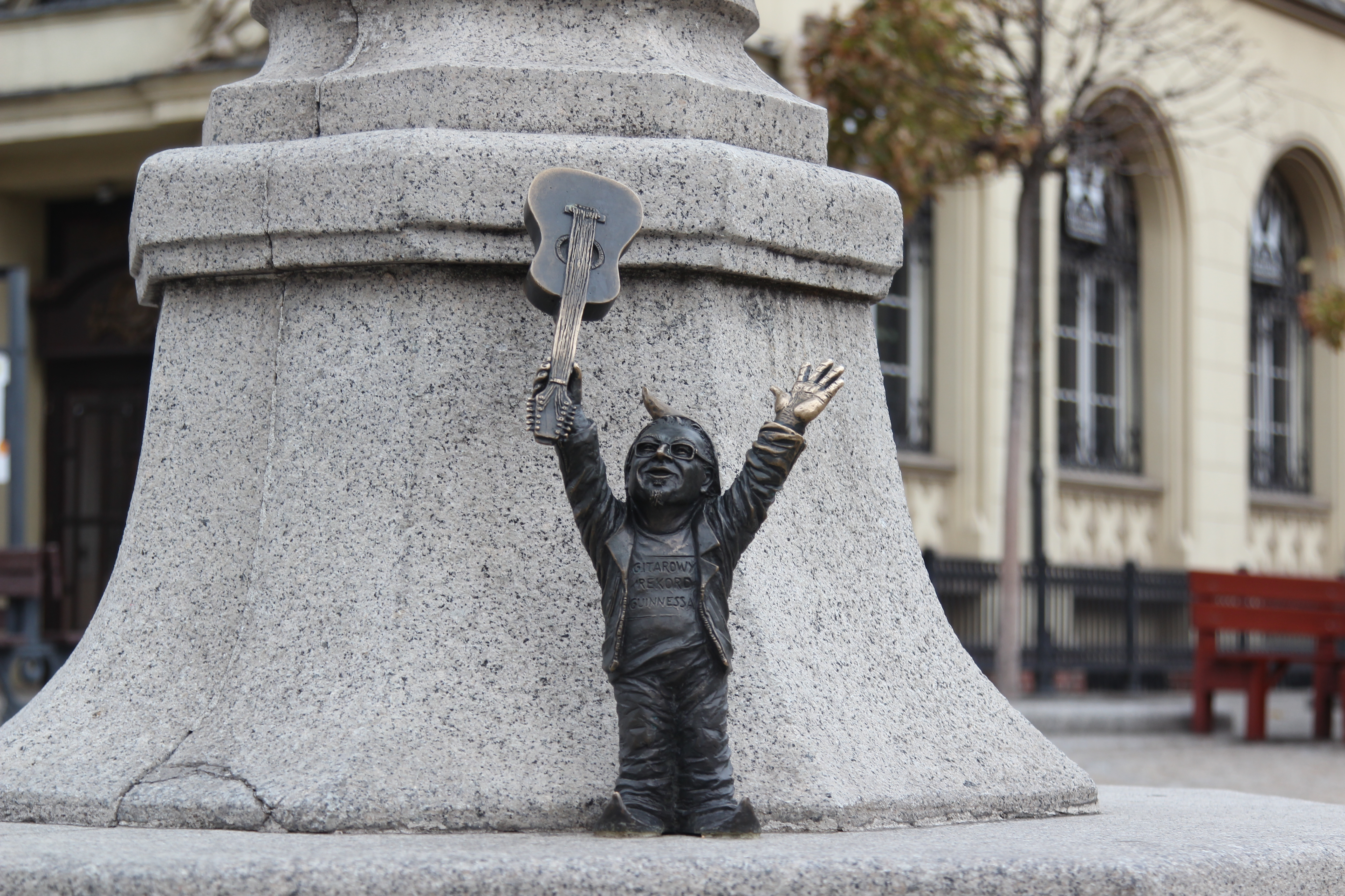 Leszko (Leszko) Wrocław dwarf commemorating Guinness record of playing "Hey Joe" on guitars and its organiser Leszek Cichoński located on plac Gołębi